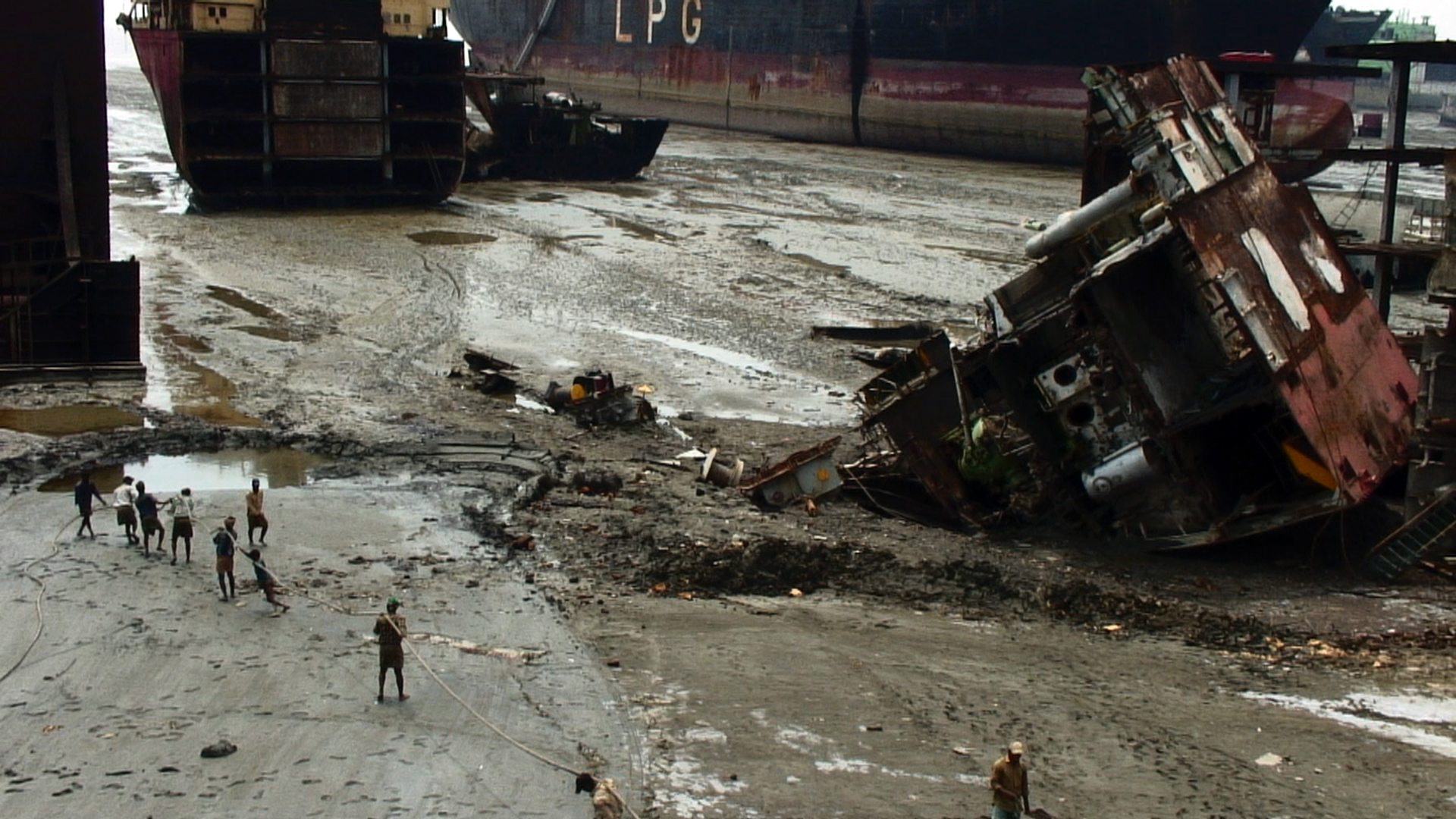 SHIPWRECK •Documentary 2010 •Dir. Javier Gómez Serrano •Prod. Stéphane M. Grueso •elegant mob films / TVE / Odisea •1 x 58' / color / stereo •HD - HDCAM Shipwreck is the story of Jahur and Lamu, men that work at the ship yards breaking vessels in Chittagong, a coastal province of Bangladesh# This is the story of ordinary Bengali men struggling to raise their families against a backdrop of labor uncertainty, health hazards unknown to us, and salaries that make them the most competitive labor force in the world# Jahur is a cutter, a crafted worker that slices down the ships day and night# He sits at the top of the job positions in the yard# Lamu is older but strong, he is one of those workers that lift and carry steel planks all day# The three of them represent the whole of the man power assembled in the yards# This is their story#